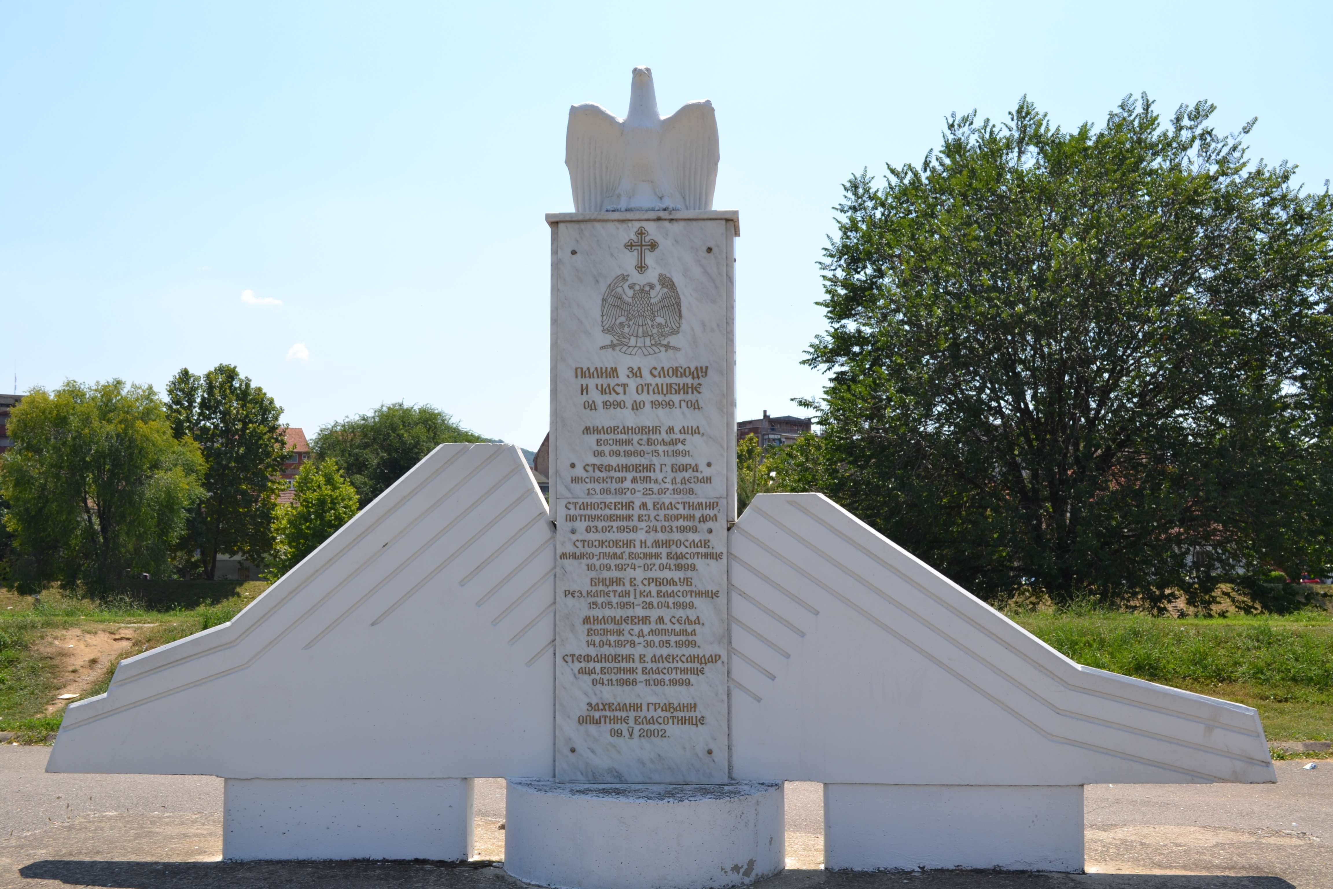 Споменик погинулим борцима 1990-1999 у Власотинцу